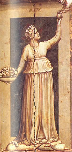 Life of Christ